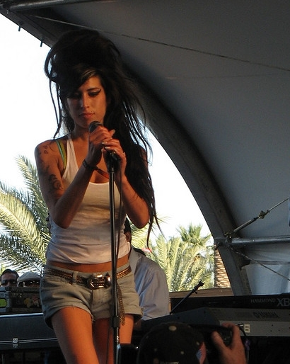 Amy Winehouse Coachella Festival 2007